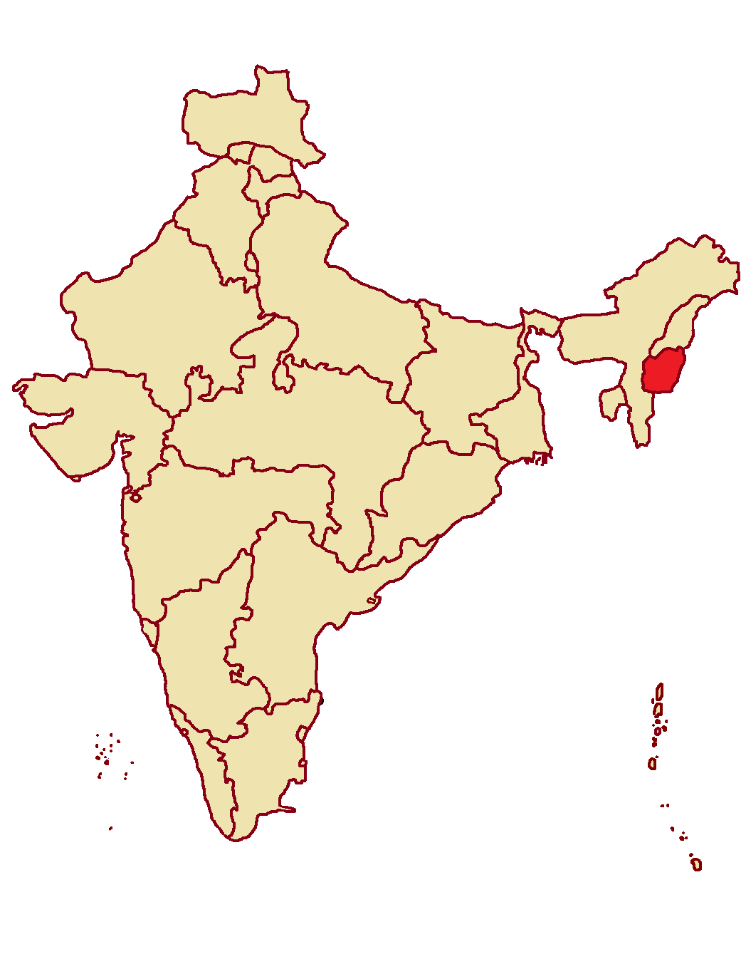 States and Union Territories of India, as of 1964-1965, i.e. between the creation of the state of Nagaland in 1963 and the Punjab Reorganization Act, 1966. Map does not include territories claimed by India but controlled by other countries. Borders not necessarily to scale. Based on File:States_of_India_(1964).png